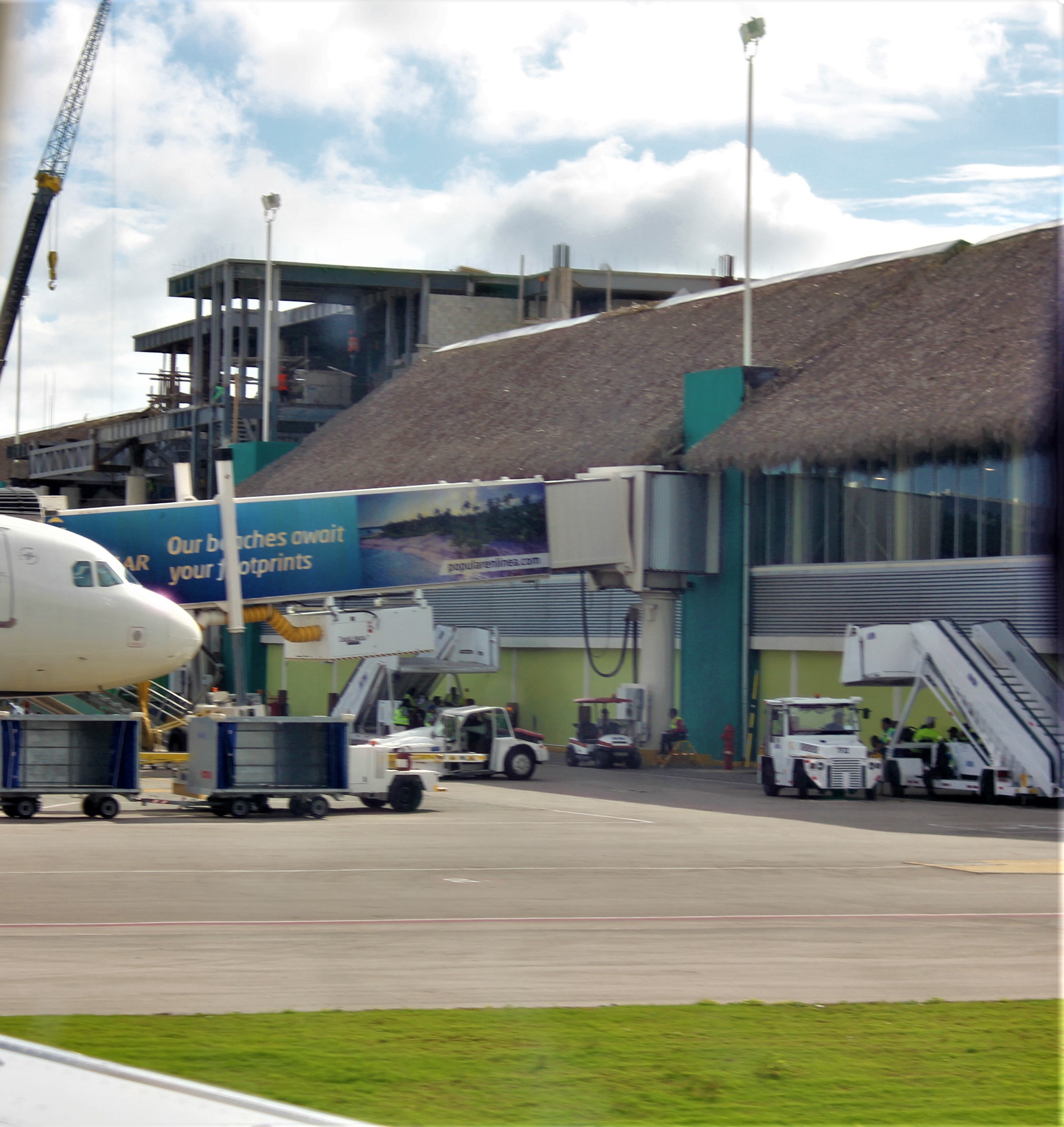 Punta Cana International Airport apron